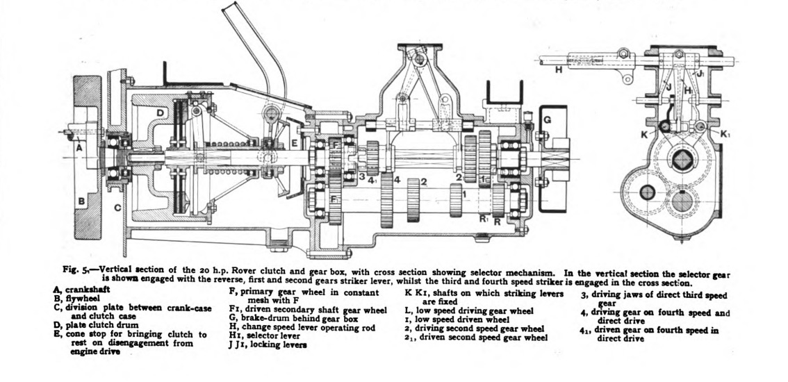 1907 Rover 20hp gearbox diagram